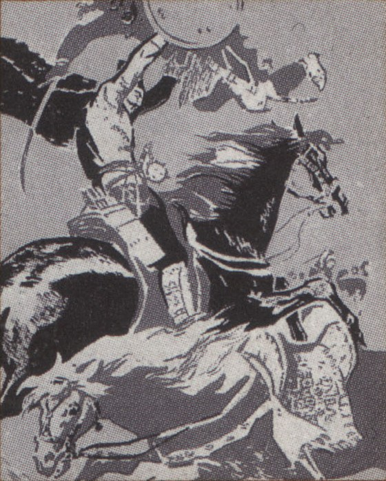 Stamp of USSR, Epic poems of USSR nations. Azerbaijan epic poem "Koroglu", 1989